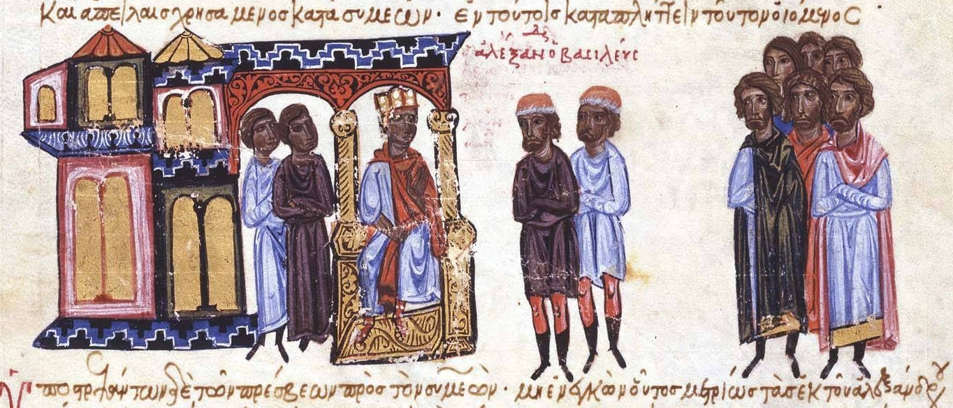 Emperor Alexander receives the envoys of the Bulgarian ruler Symeon